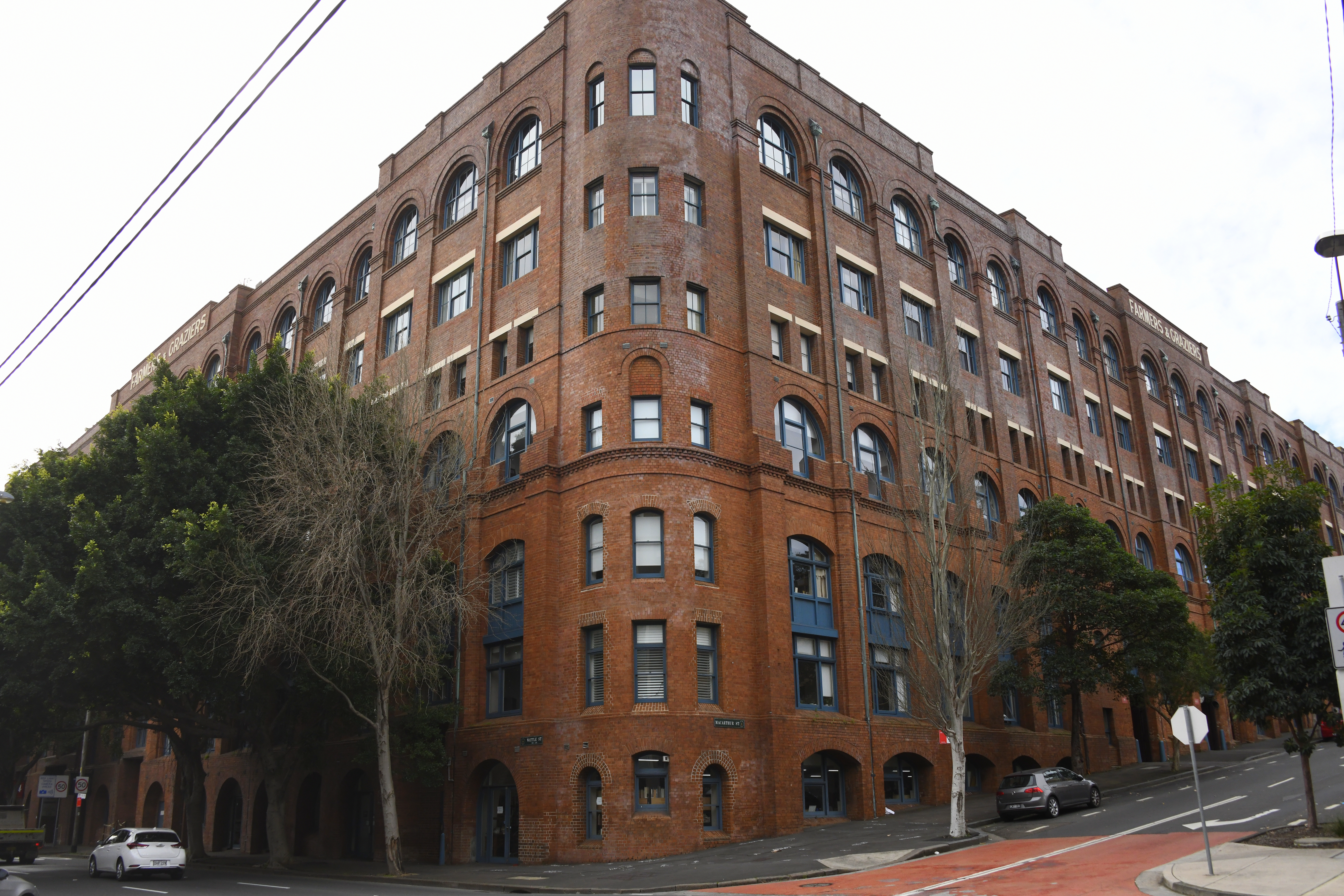 Farmers and Graziers warehouse, Wattle Street, Ultimo, Sydney